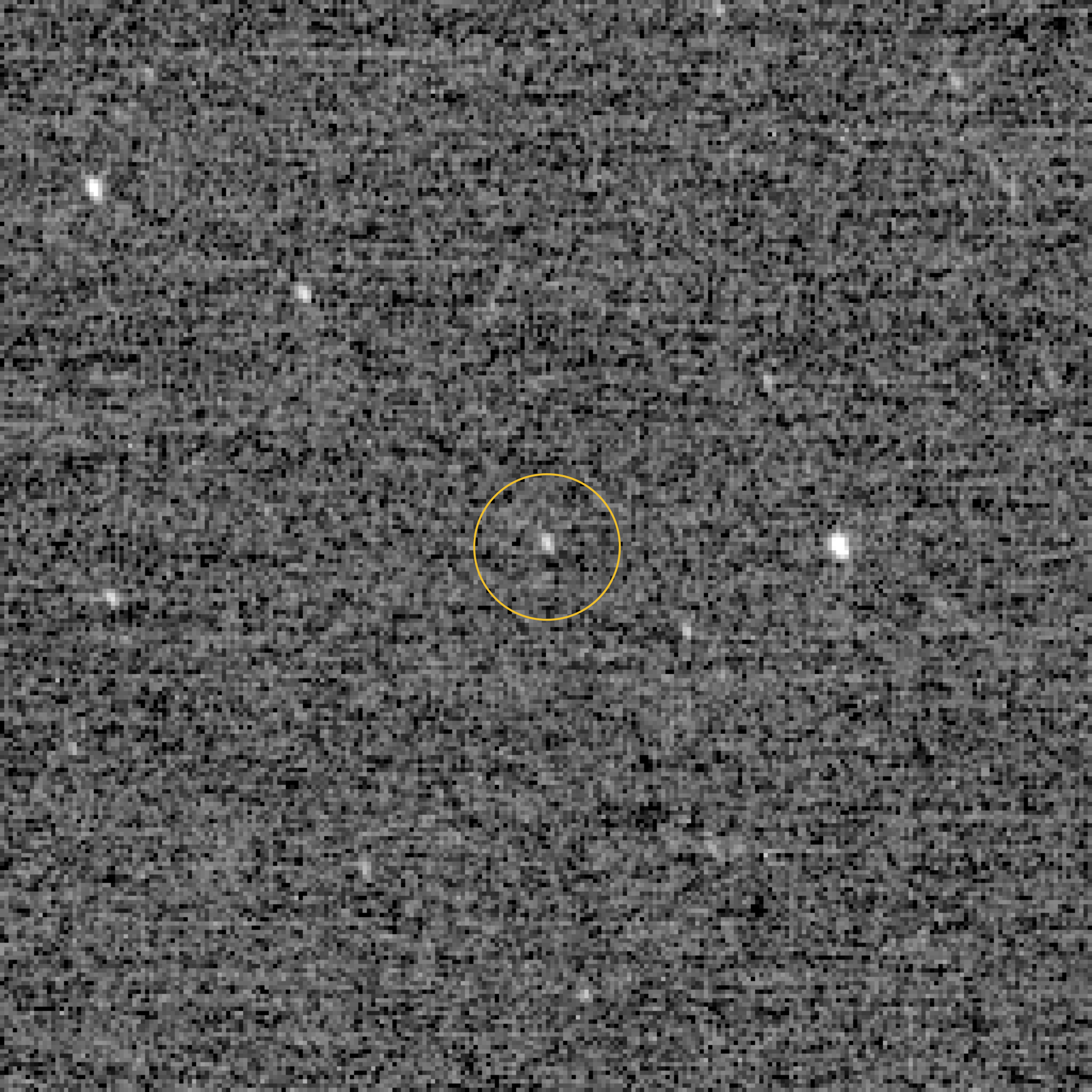 This image shows the first detection of 2014 MU69 (nicknamed "Ultima Thule"), using the highest resolution mode (known as "1x1") of the Long Range Reconnaissance Imager (LORRI) aboard the New Horizons spacecraft. Three separate images, each with an exposure time of 0.5 seconds, were combined to produce the image shown here. All three images were taken on Dec. 24, 2018, at 01:56 UT spacecraft time and were downlinked to Earth about 12 hours later. The original images are 1024 x 1024 pixels, but only a 256 x 256 pixel portion, centered on Ultima (circled in orange), is displayed. The other objects visible in this image are nearby stars. At the time this image was taken, Ultima was 4 billion miles (6.5 billion kilometers) from the Sun and 6.3 million miles (10 million kilometers) from the New Horizons spacecraft. Previous LORRI images of Ultima required using its lower resolution mode ("4x4"), which has one-quarter the resolution of 1x1 mode, and longer exposure times, 30 seconds each for the images taken from mid-August through early December 2018. The new higher resolution images taken from now until New Horizons’ Jan. 1 flight past Ultima on will enable better optical navigation to the small Kuiper Belt object and higher spatial resolution searches for any nearby moons.